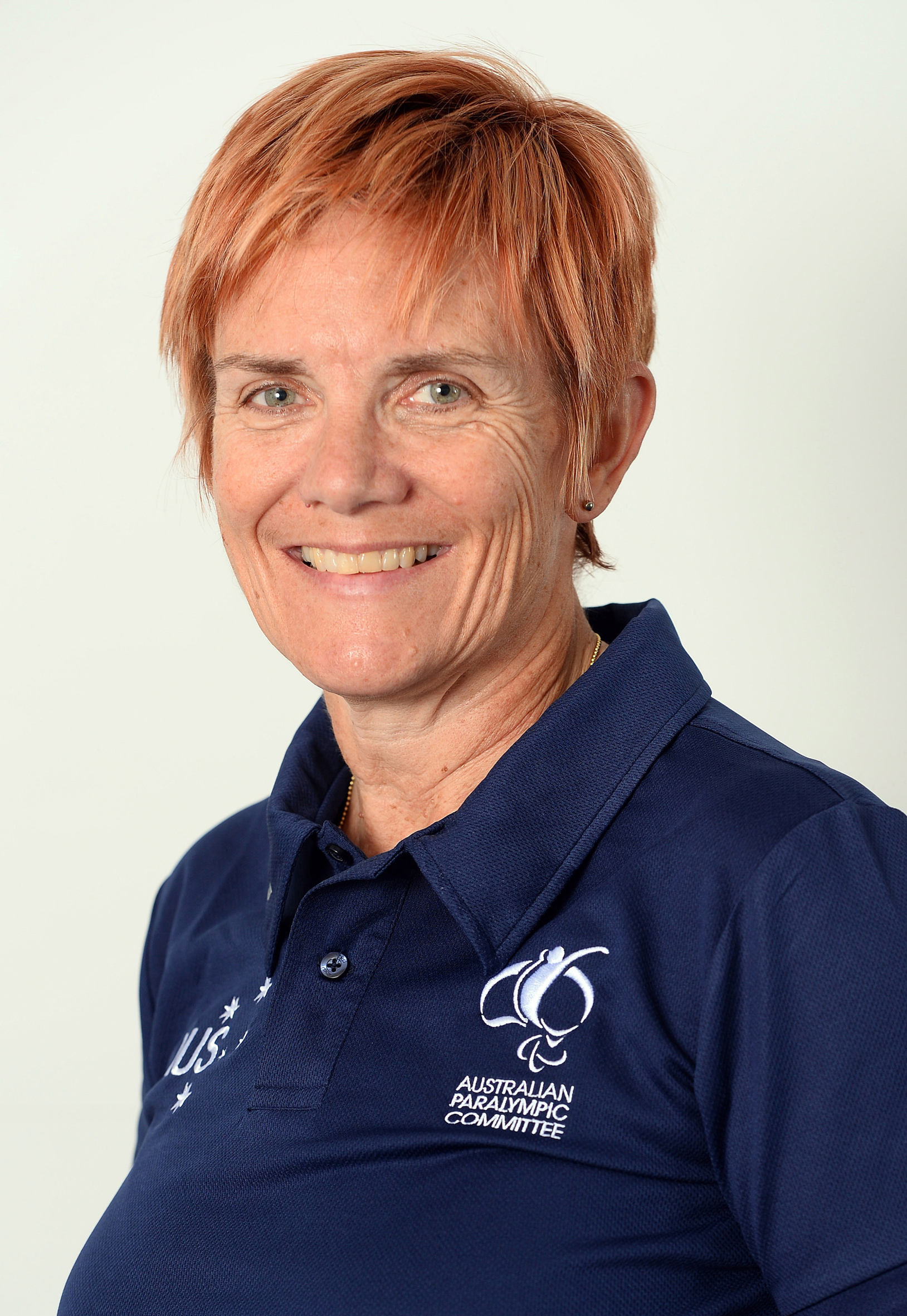 Portrait photograph of Carol Cooke taken at team processing session for shadow members of 2016 Australian Paralympic team